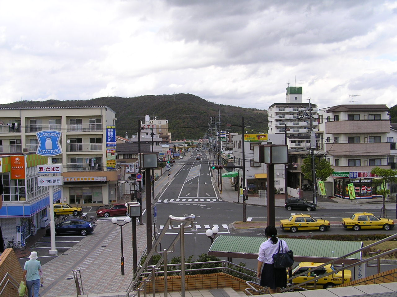 In front of Nakasho st (Okayama prefectural road No.186)